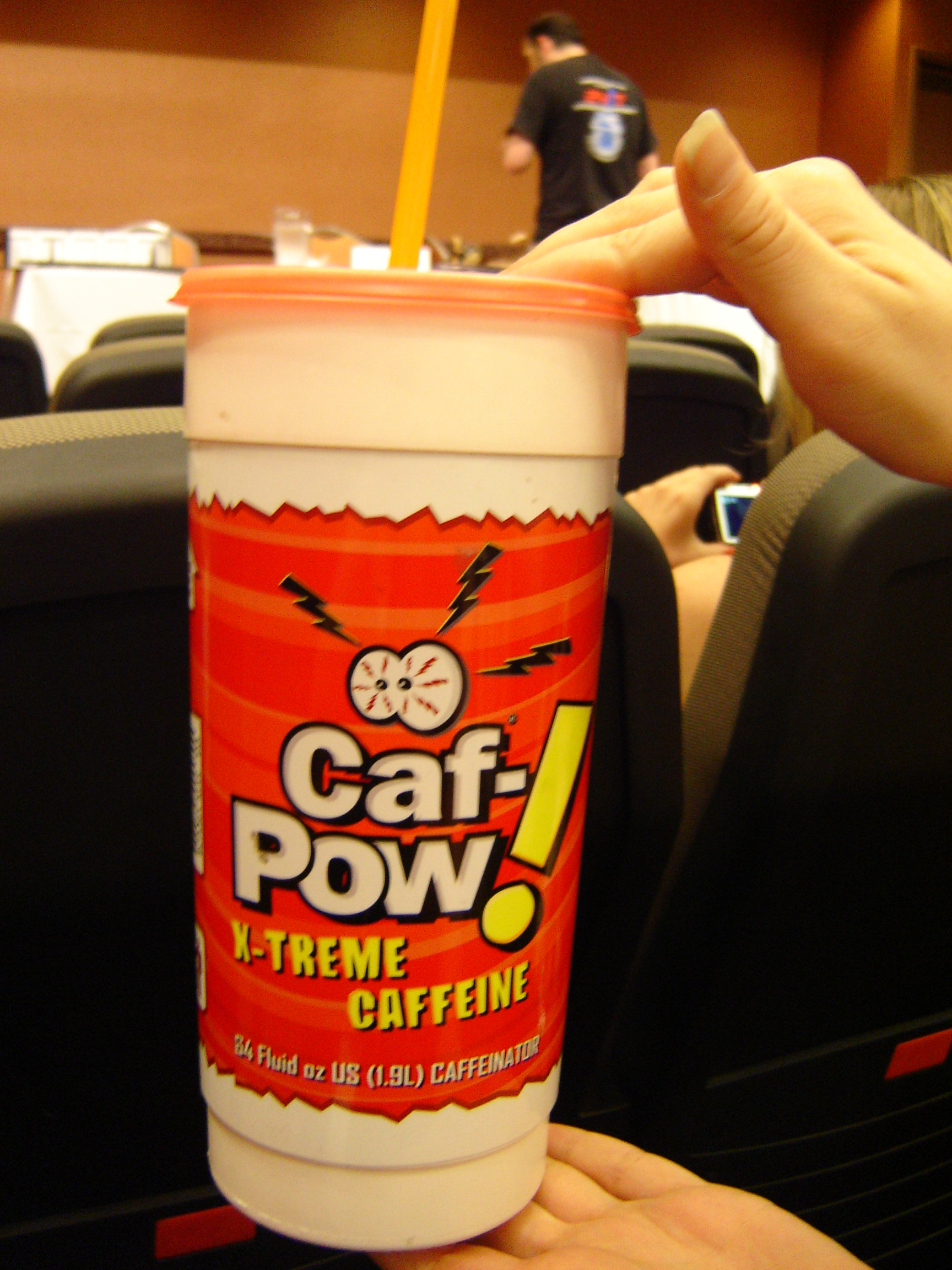 I've cropped my friend and myself out of these photos because I look like a dork and I figured she would not want to be on Flickr publicly (She doesn't look dorky at all in these photos). That's part of my blue shirt you can see.